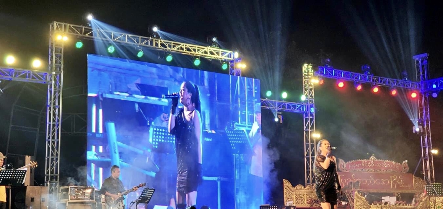 Su Pan Htwar is an actress and singer in Myanmar